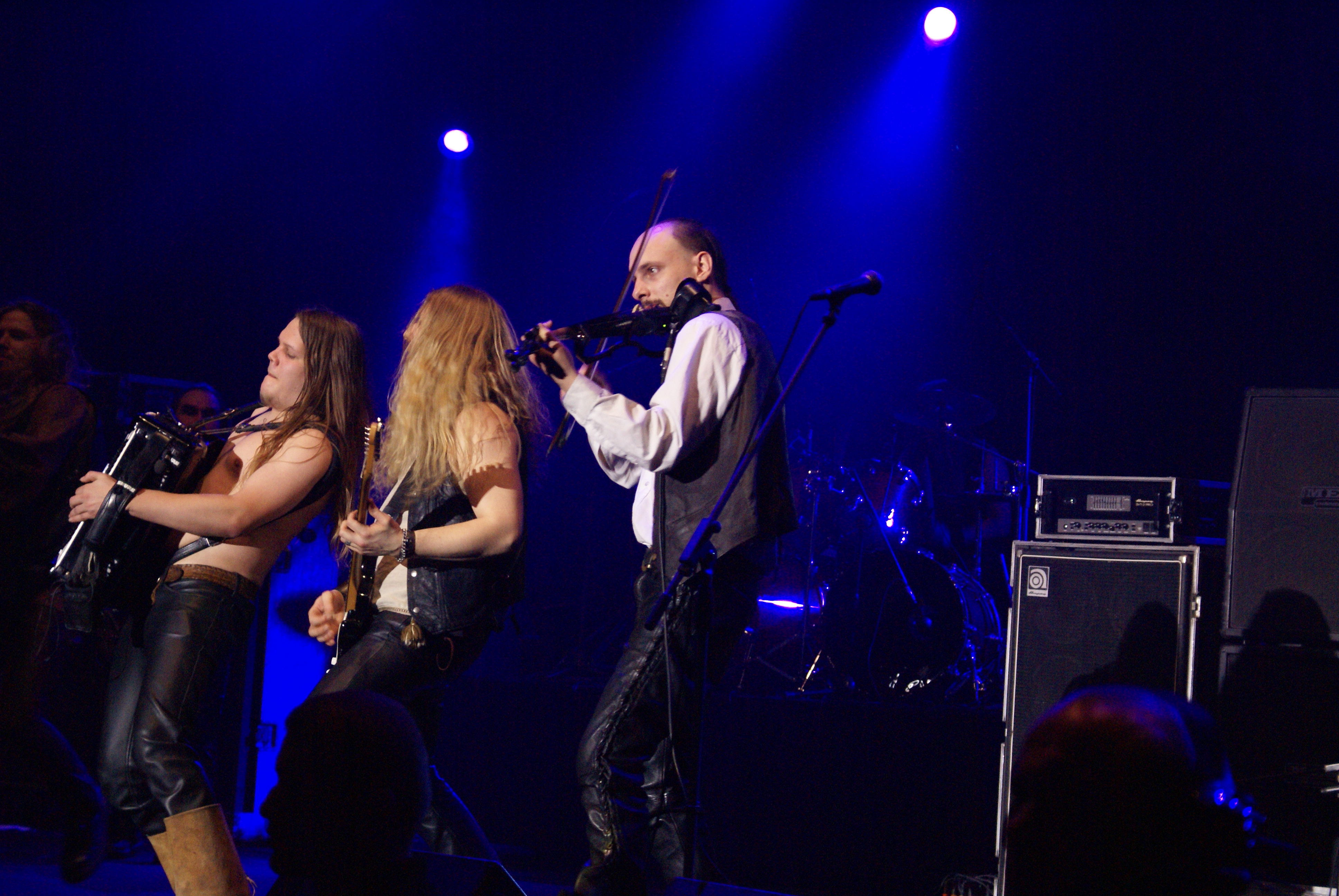 Metal band Korpiklaani during Metalmania 2007 festival